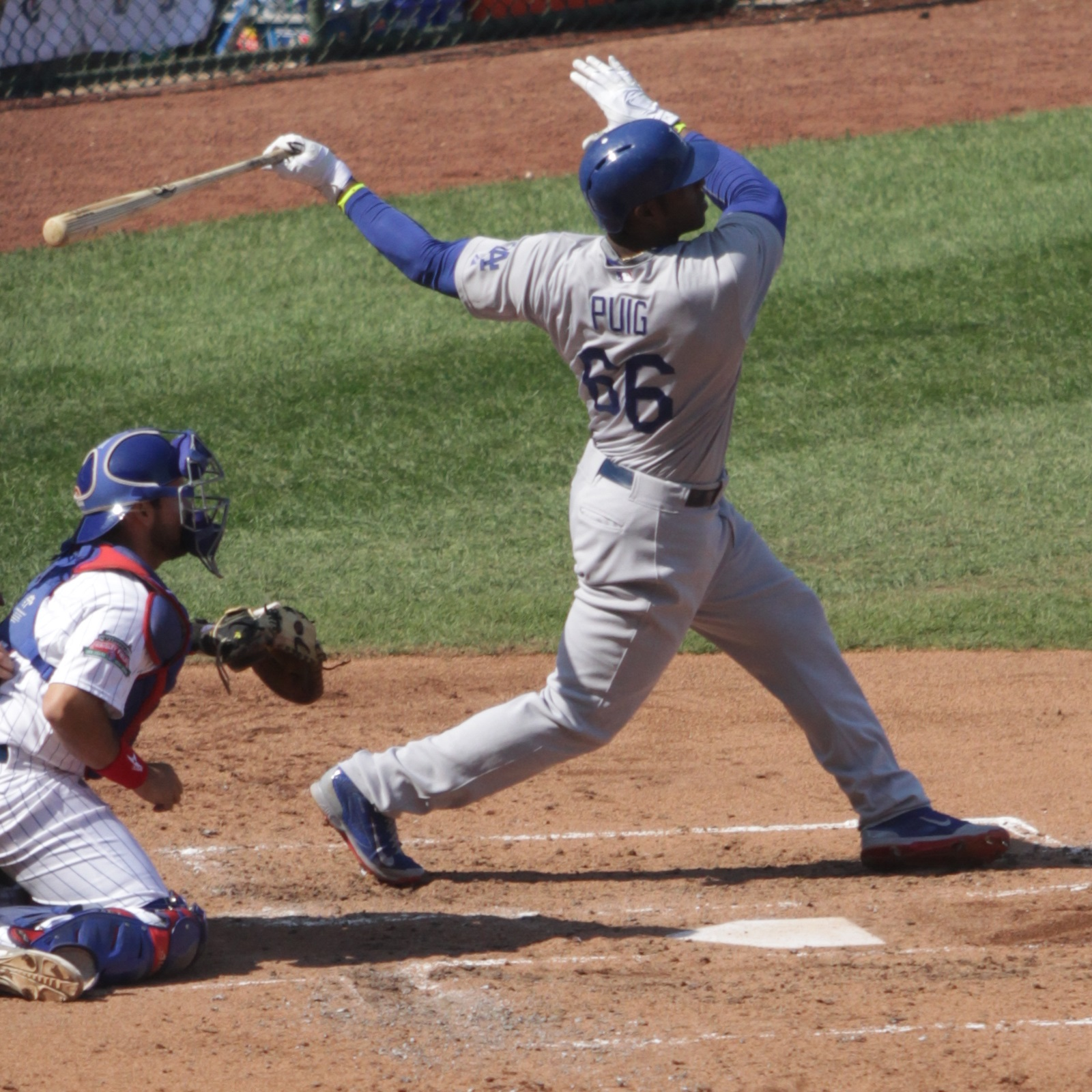 Yasiel Puig for the 2014 Los Angeles Dodgers against the 2014 Chicago Cubs at Wrigley Field.